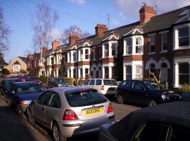 Eltisley Avenue. A typical street in the residential area of Newnham Croft in south-west Cambridge. The poets Ted Hughes and Sylvia Plath lived on this street when they were first married, and it inspired a poem by Hughes, "55 Eltisley Avenue".